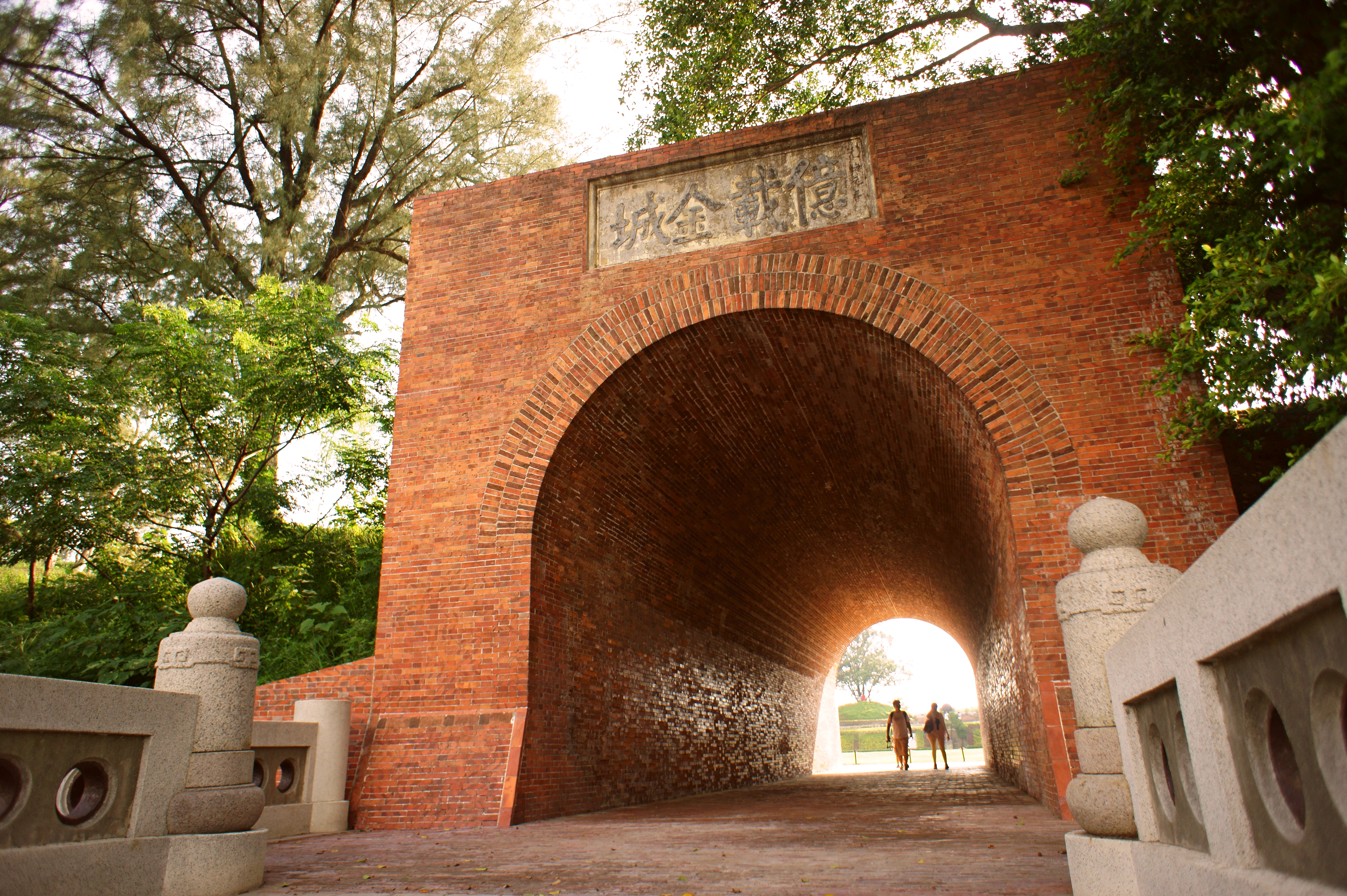 Erkunshen Battery (The Main Entrancee of Eternal Golden Castle).